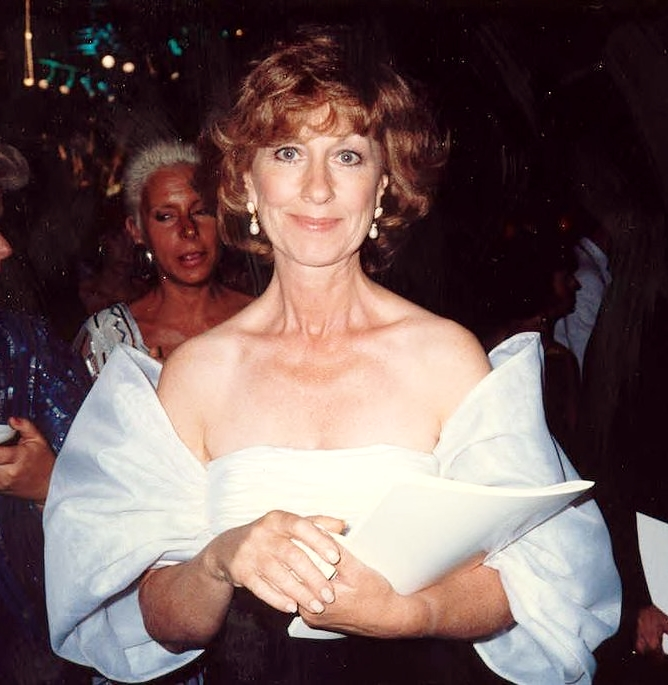 Christina Pickles at the Governor's Ball held immediately after the 39th Annual Emmy Awards telecast 9/20/87